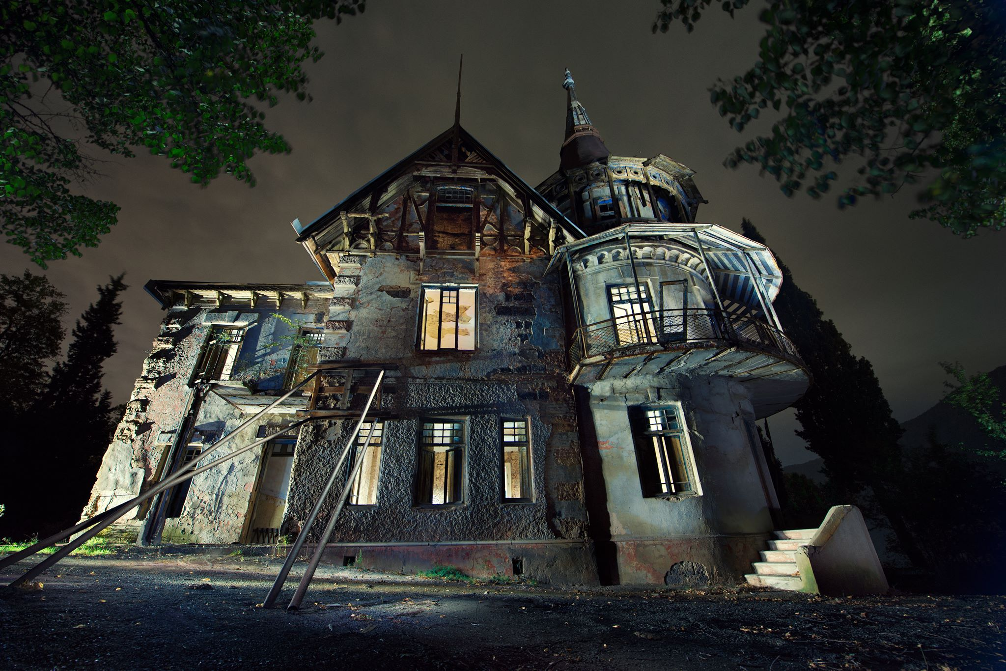 The mansion of philanthropist Mikael Aramyants in Akhtala, Lori Province